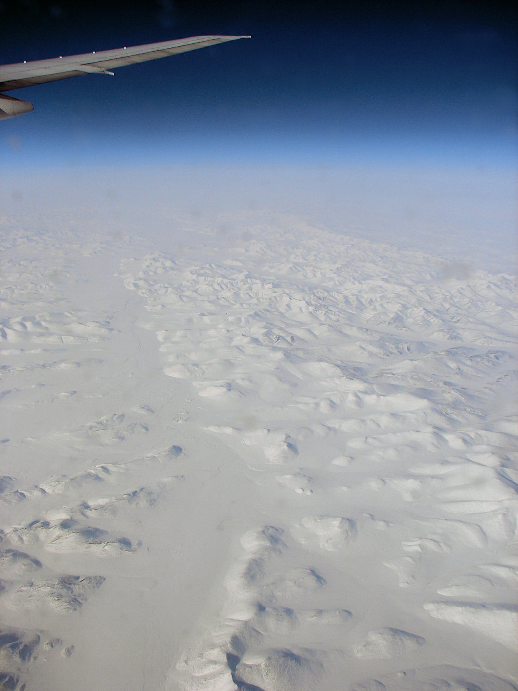 Aerial view of northern Chukotka, Russia